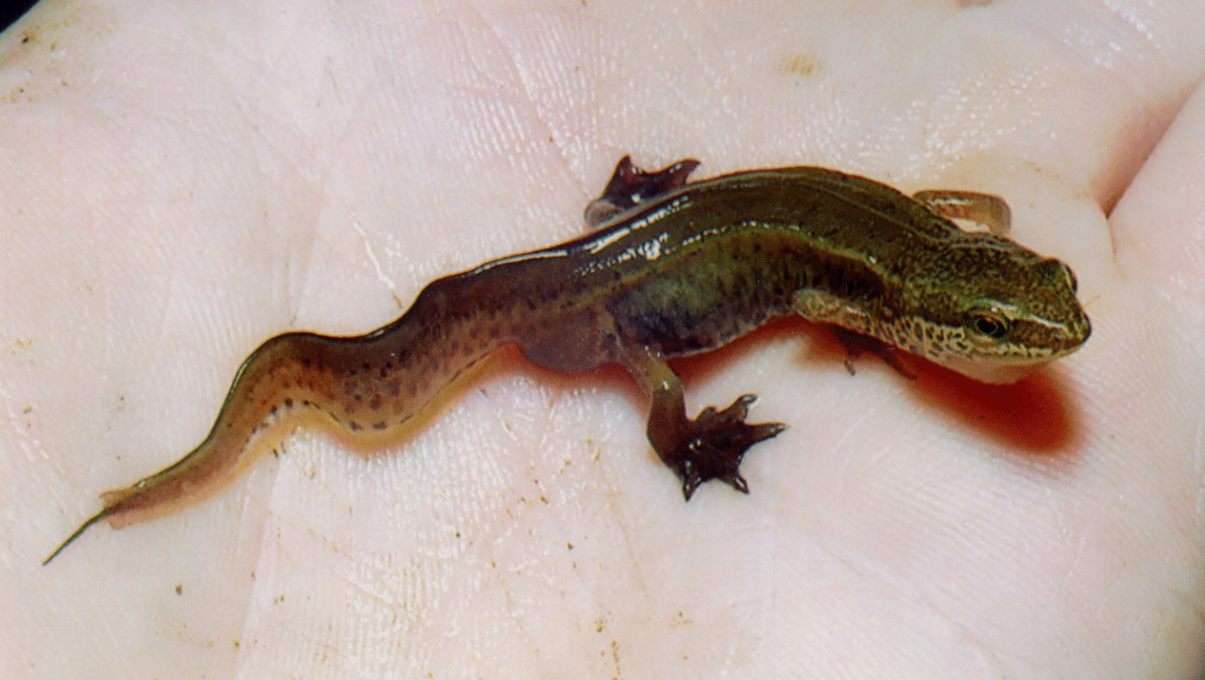 The Palmate Newt (Lissotriton helveticus), male specimen in water habit. Note the thread at the end of the tail and the dark web at the hind feet.